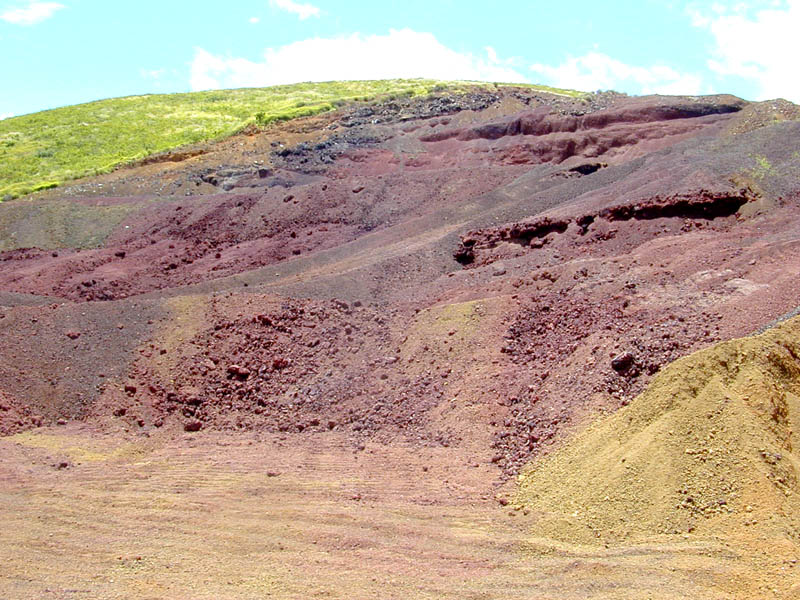 View of small cinder quarry on the lower north slope of Mauna Kea, Island of Hawai‘i taken June 30, 2004 by Eric Guinther.